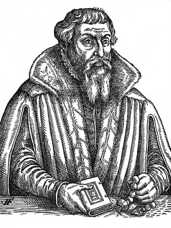 Kupferstich Andreas Musculus, (1514-1581) Theologe und Reformator.